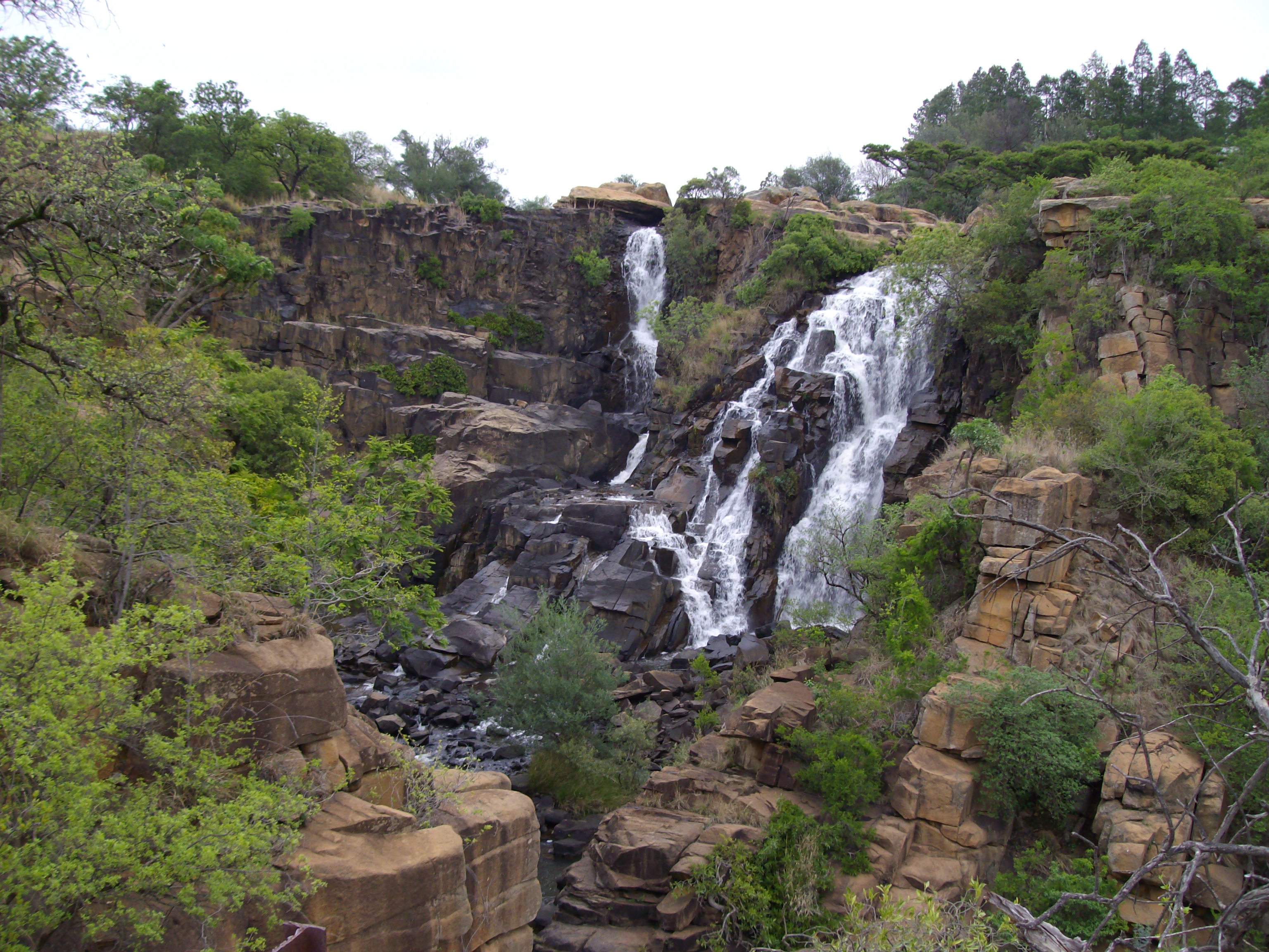 Ncandu waterval, 12km buite Newcastle, KZN